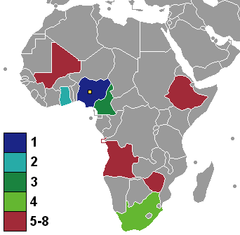 Results of teams that participated in the 2000 African Women's Championship, the fourth edition of the biennial football championship organised by the CAF.